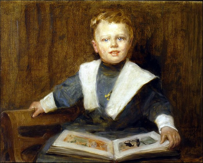 Portrait Wastl, oil on canvas 56,5 x 71,5 cm